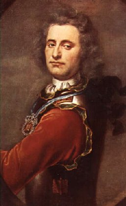 Portrait of Peter Jansen Wessel (1690-1720), often known as Peter Tordenskiold, Norwegian navy hero.